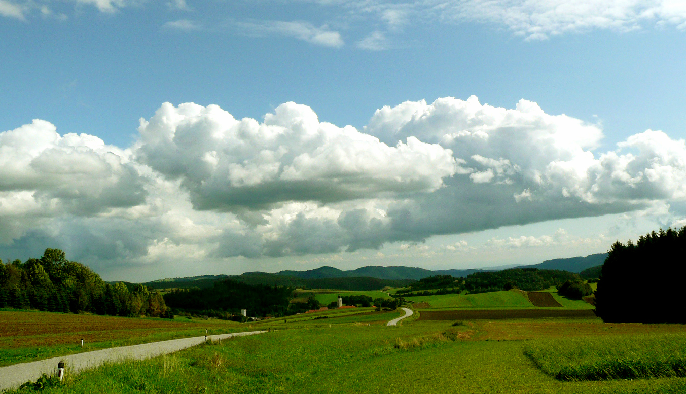 Landscape near Kottes-Purk, village in Lower Austria, District Zwettl